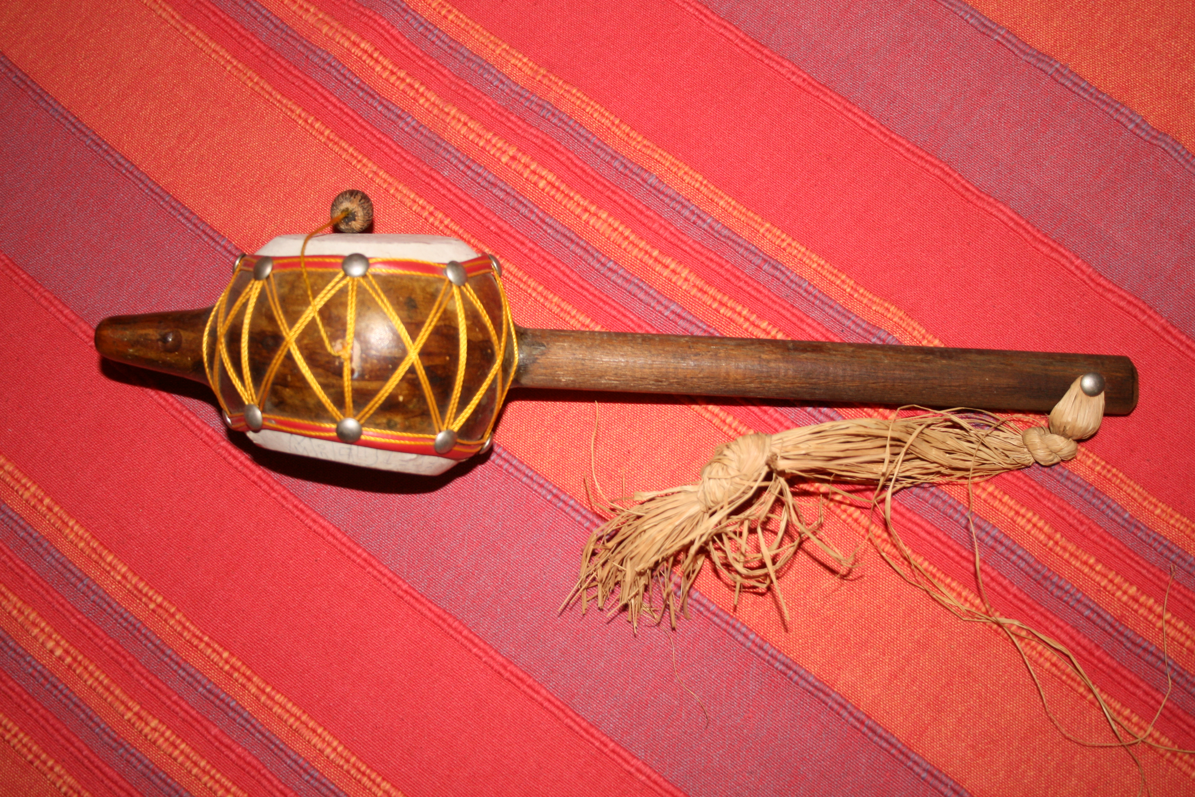 Brazilian hand drum